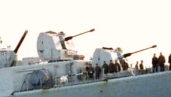 Cropped from File:F581 Carabiniere.jpg: Two 76/62mm MMI guns mounted upfront on the Italian Navy's Alpino class frigate MM Carabiniere (F581).